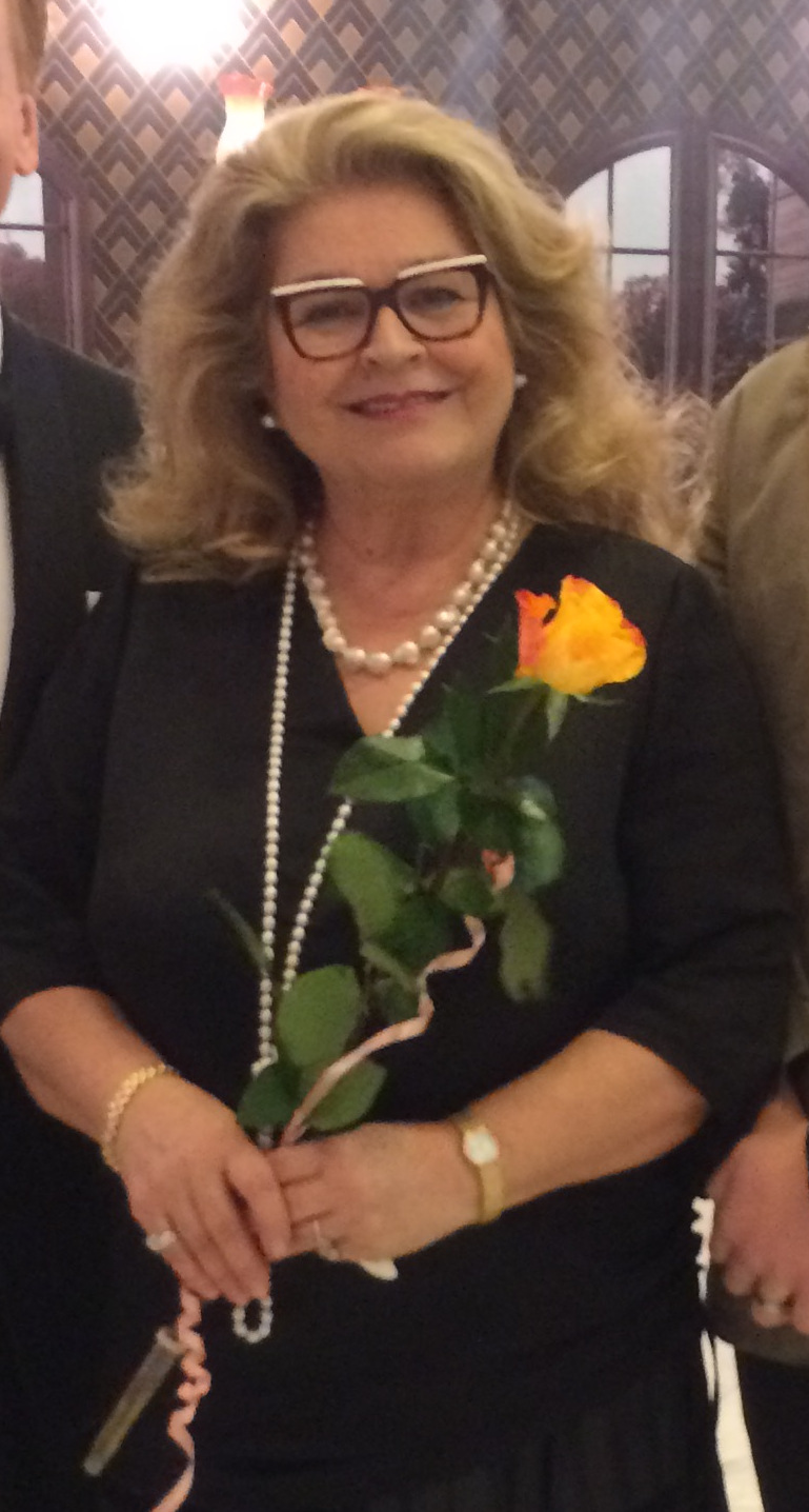 Czech operatic soprano Gabriela Benackova after her recital in Trinec, Czech Republic, January 26 2017